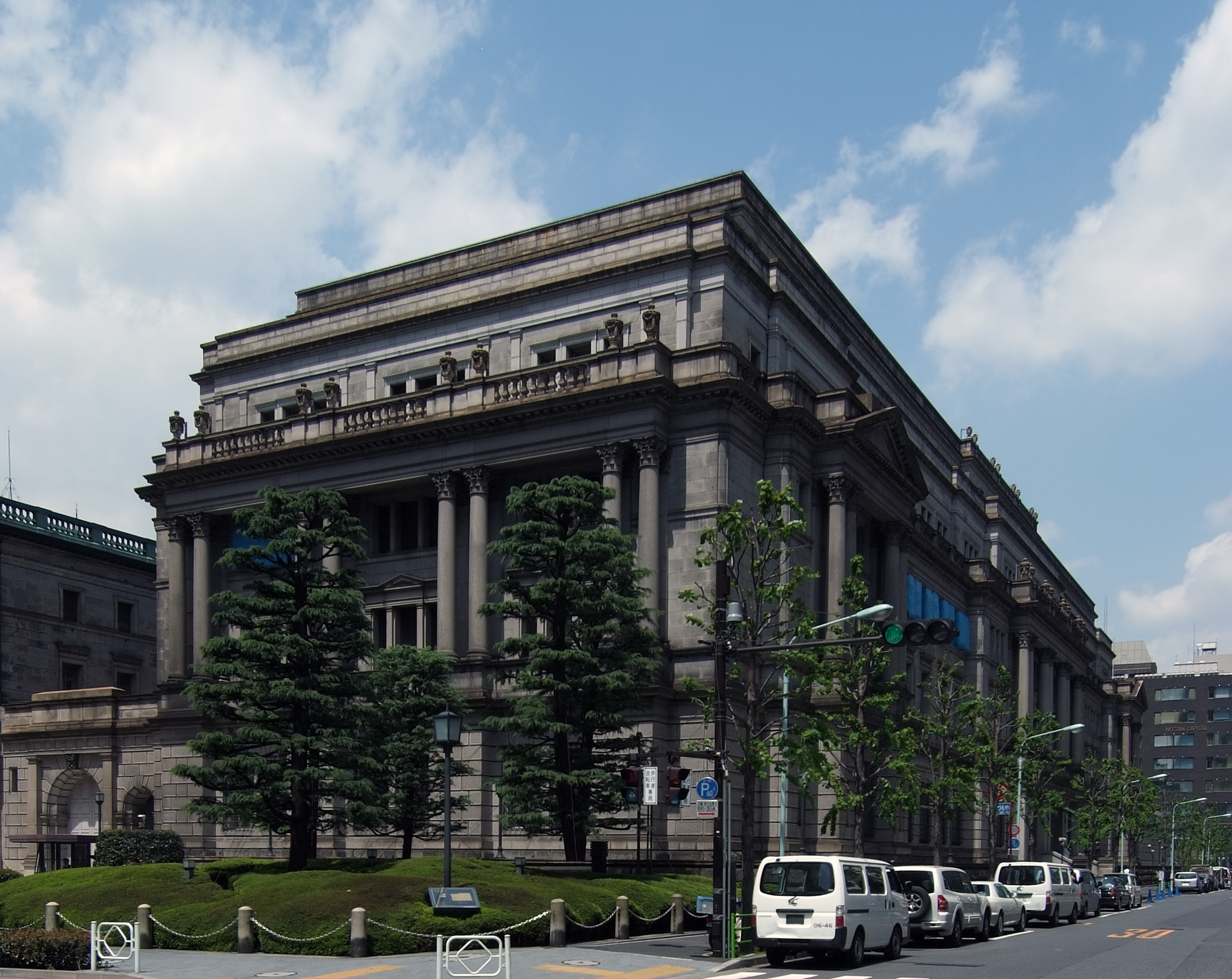 Bank of Japan Headquarters Extension Part, at Chuo-ku Tokyo Japan, designed by Uheiji Nagano in 1932-1937.